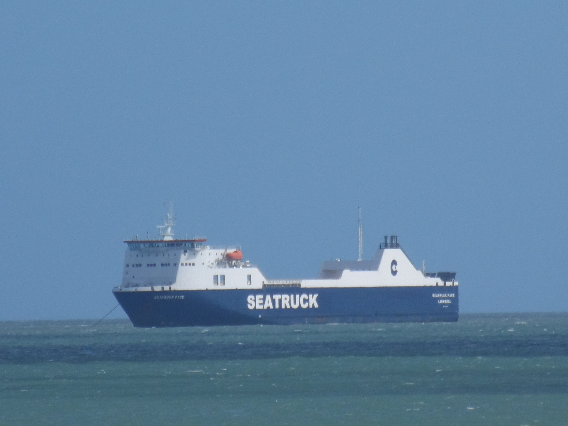 Seatruck